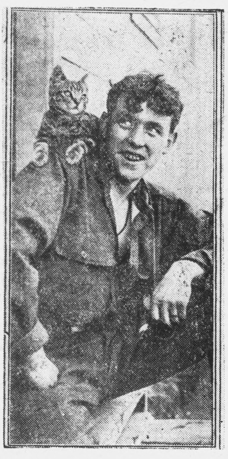 Caption: TOWAWAY AND MASCOT JASS OF R-34 To William Ballantyne, 22 years old goes the distinction of being the first stowaway on a trans-atlantic airship. Bill stowed away on the R-34 as the big airship left its base in Scotland bound for America.